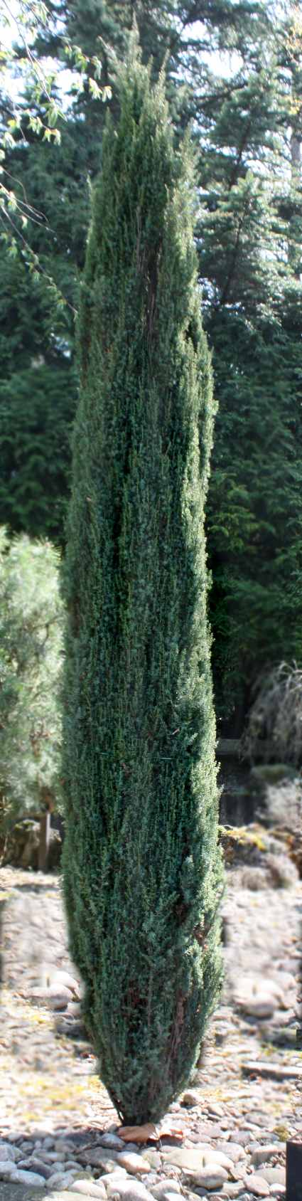 Juniperus comunis, Brno, CZ